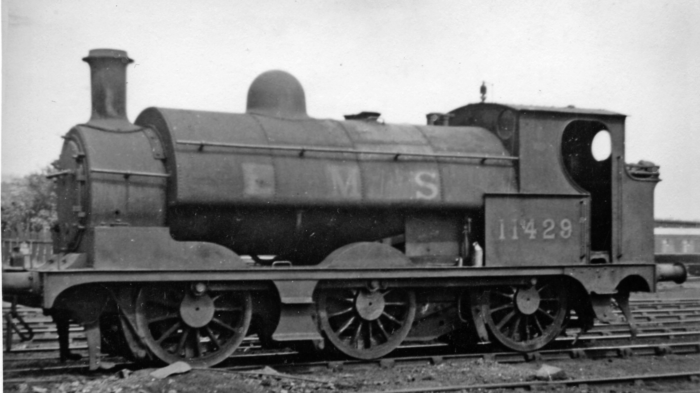 EX-L&Y 0-6-0 saddle-tank at Low Moor Locomotive Depot. No. 11429 was an L&Y 2F 0-6-0T built by Barton Wright c. 1890 as an 0-6-0 tender engine, soon rebuilt by Aspinall as a saddle-tank and eventually withdrawn as BR 51429 in 5/61, after ending its days as a Horwich Works shunter. Low Moor Depot (code 25F) had an allocation in 1946 of 39:- 12 4-6-0, 6 4-4-0, 2 2-6-0, 12 0-6-0 and 7 2-4-2T - but no 0-6-0T.